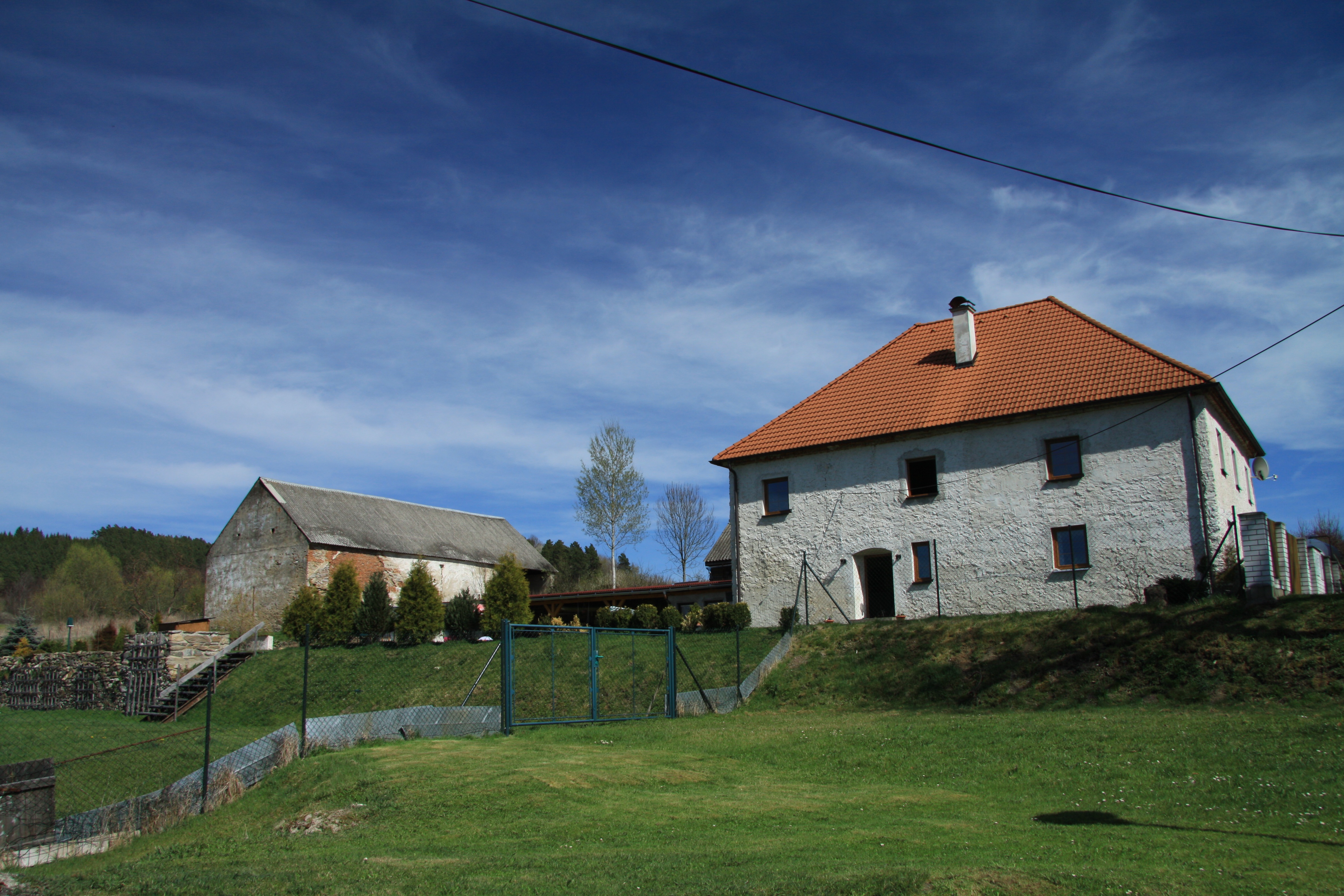 Křenov village, part of Kájov village in Český Krumlov District, Czech Republic